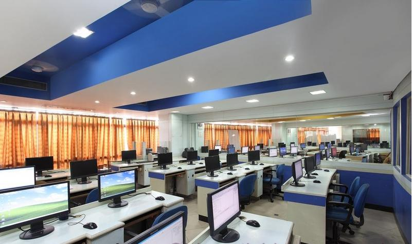 pic of bvcoe computer lab